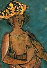 Magnus VI of Norway